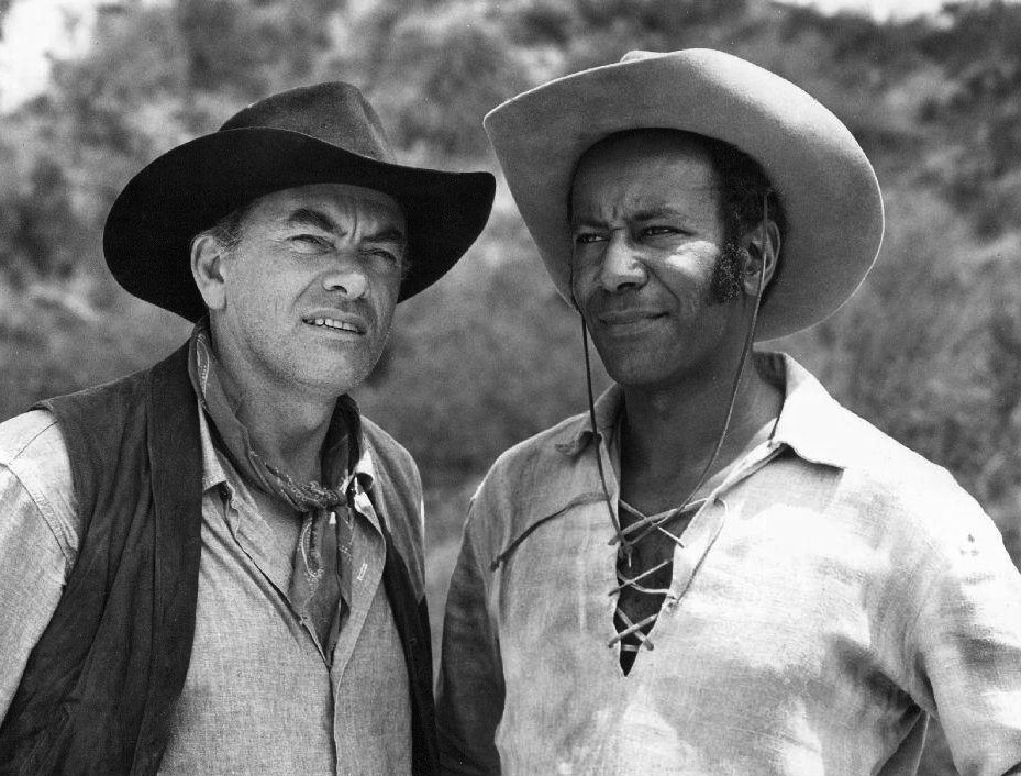 Photo of John Ireland (left) as Jed Colby and Raymond St. Jacques as Simon Blake from the television program Rawhide. The characters and actors were new to the program.